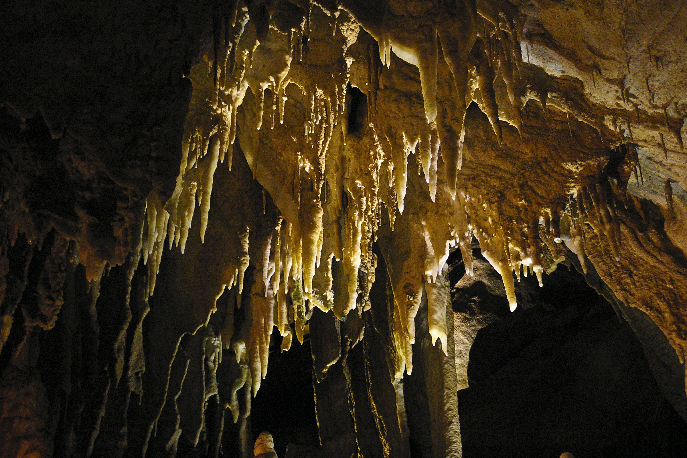 Mammoth Cave National Park, Kentucky